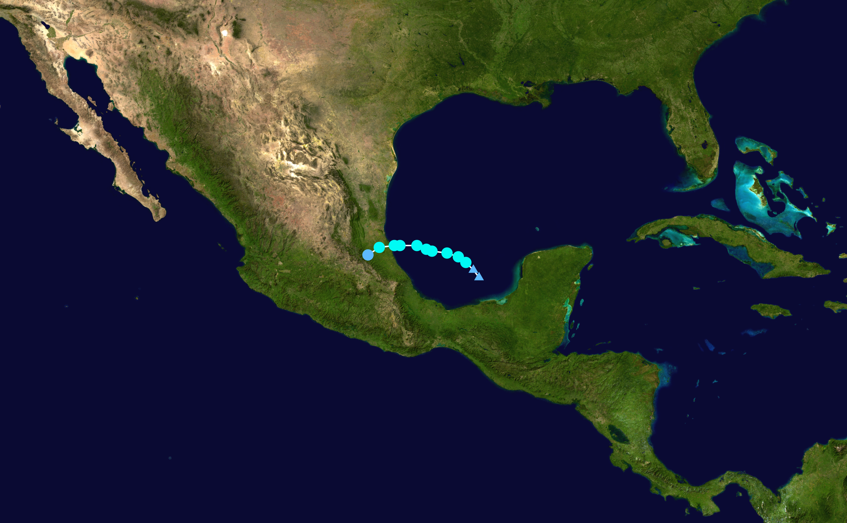 Track map of Tropical Storm Arlene of the 2011 Atlantic hurricane season. The points show the location of the storm at 6-hour intervals. The colour represents the storm's maximum sustained wind speeds as classified in the Saffir–Simpson scale (see below), and the shape of the data points represent the nature of the storm, according to the legend below. Saffir–Simpson scale Tropical depression≤38 mph≤62 km/h Category 3111–129 mph178–208 km/h Tropical storm39–73 mph63–118 km/h Category 4130–156 mph209–251 km/h Category 174–95 mph119–153 km/h Category 5≥157 mph≥252 km/h Category 296–110 mph154–177 km/h Unknown Storm type Tropical cyclone Subtropical cyclone Extratropical cyclone / Remnant low / Tropical disturbance / Monsoon depression